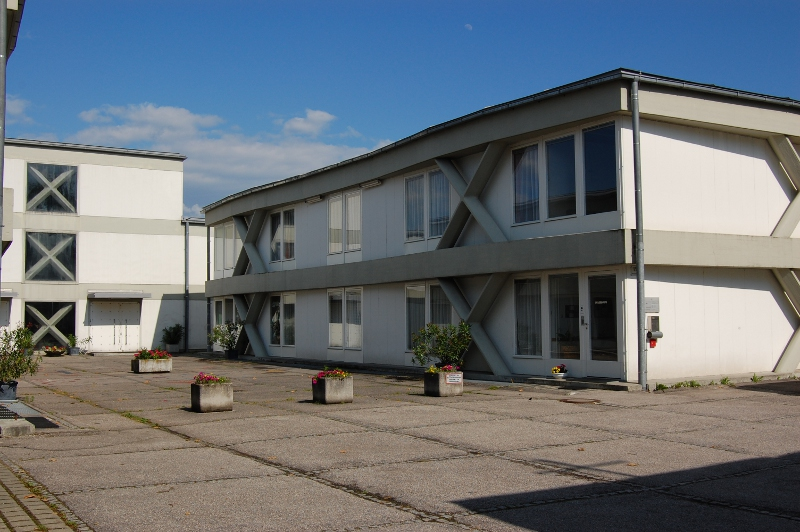 right part of Church Saint Josef the Worker, Steyr-Ennsleite, Austria